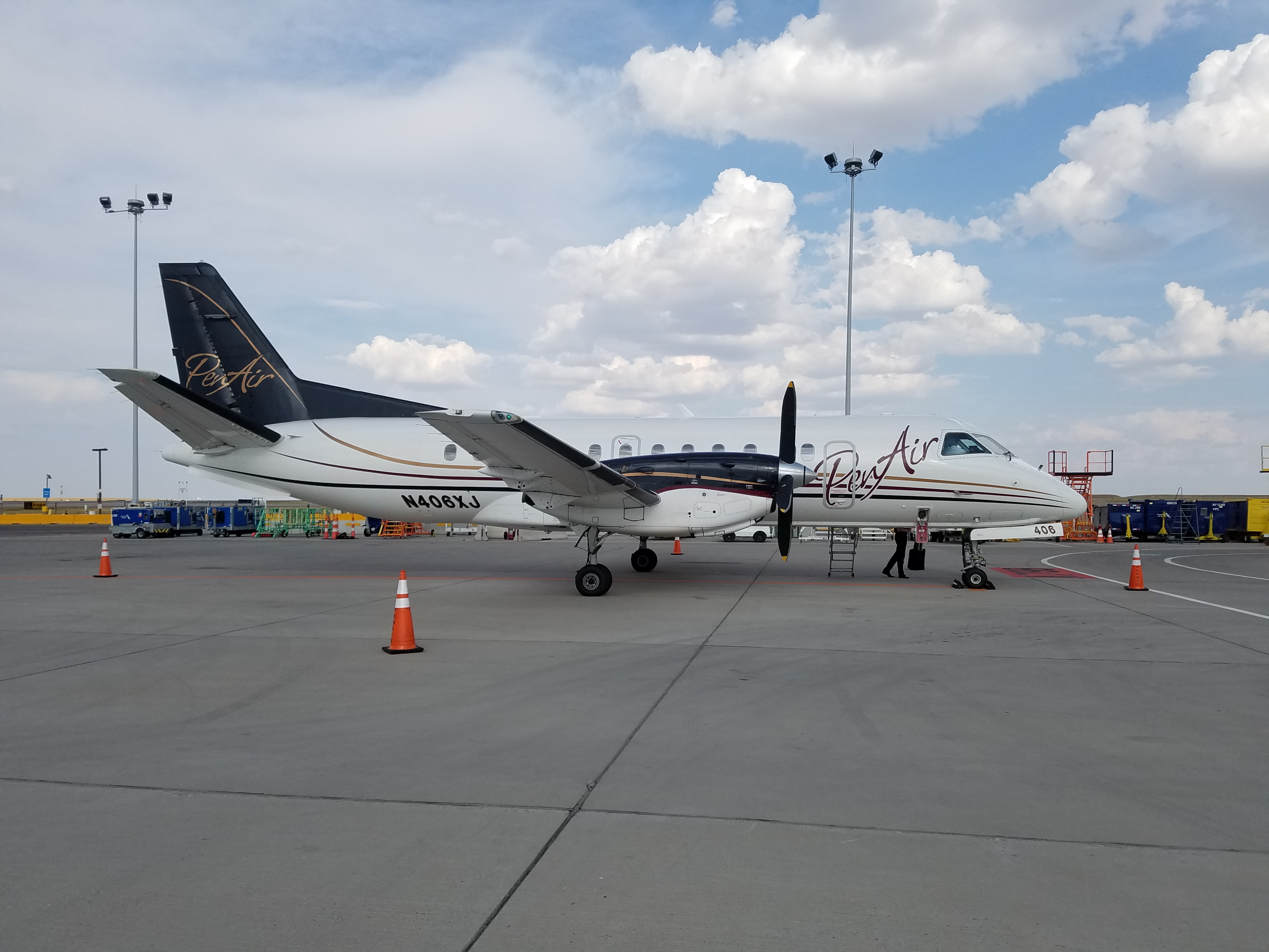 PenAir Saab 340B N406XJ at Denver International Airport (KDEN) awaiting final Denver departure.